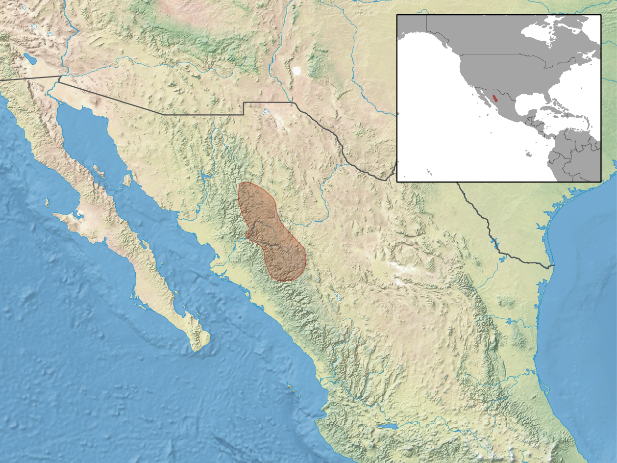 geographic distribution of Callospermophilus madrensis syn. Spermophilus madrensis